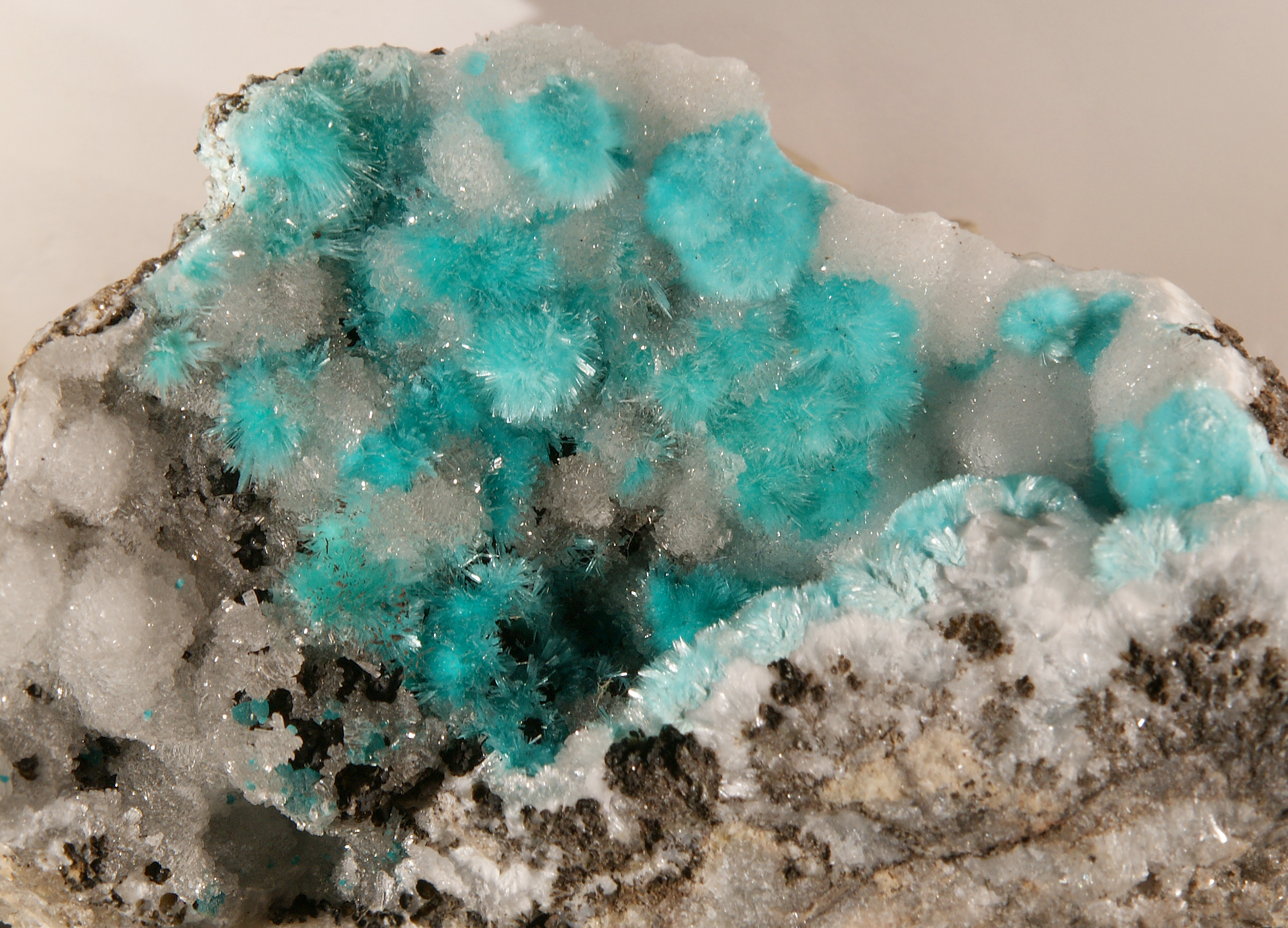 Aurichalcite with hemimorphite - 79 Mine, Chilito, Hayden area, Banner District, Gila County, Arizona, USA (7x6cm)